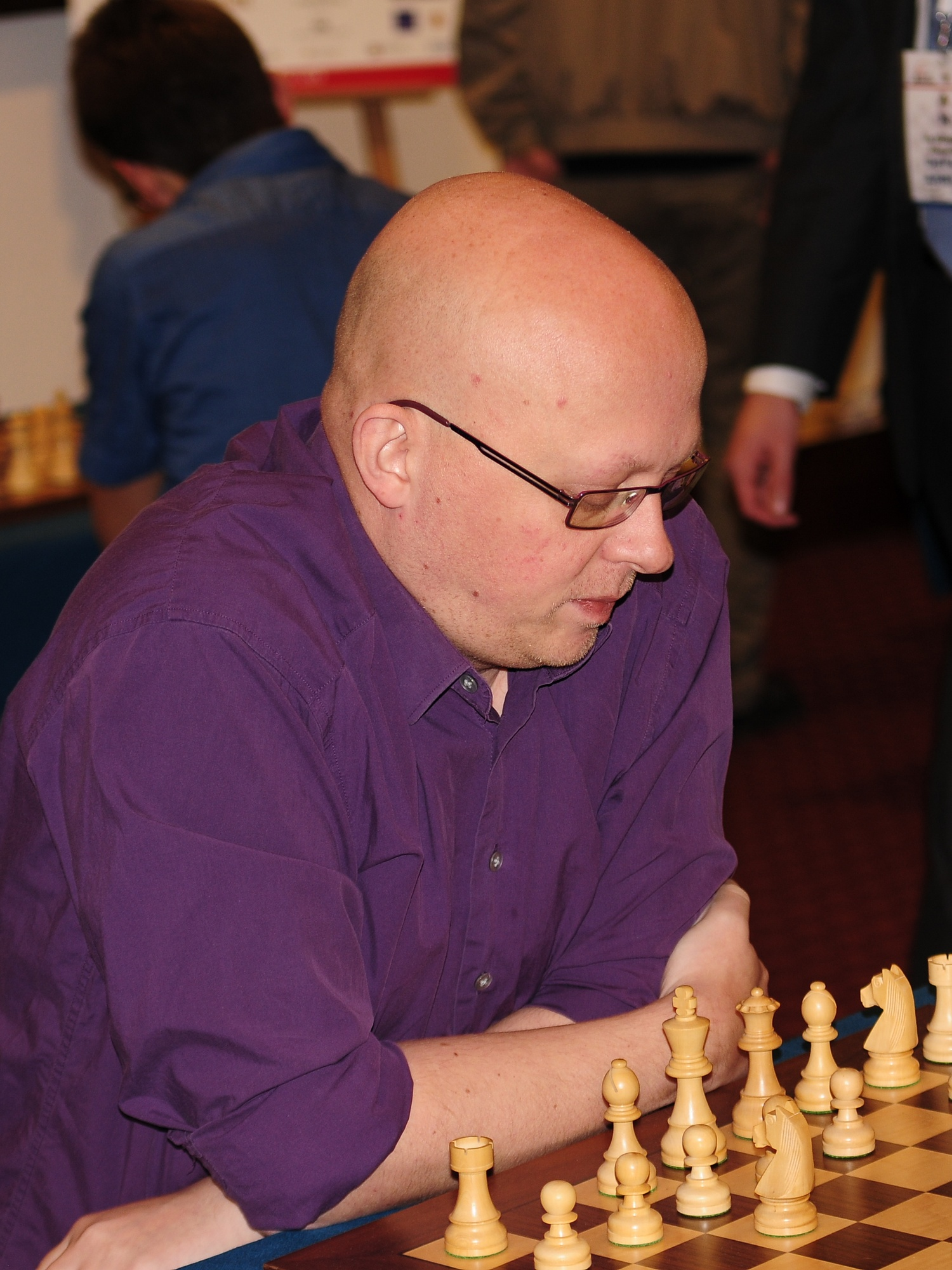 IM Stefan Docx, European Chess Team Championship Warsaw 2013